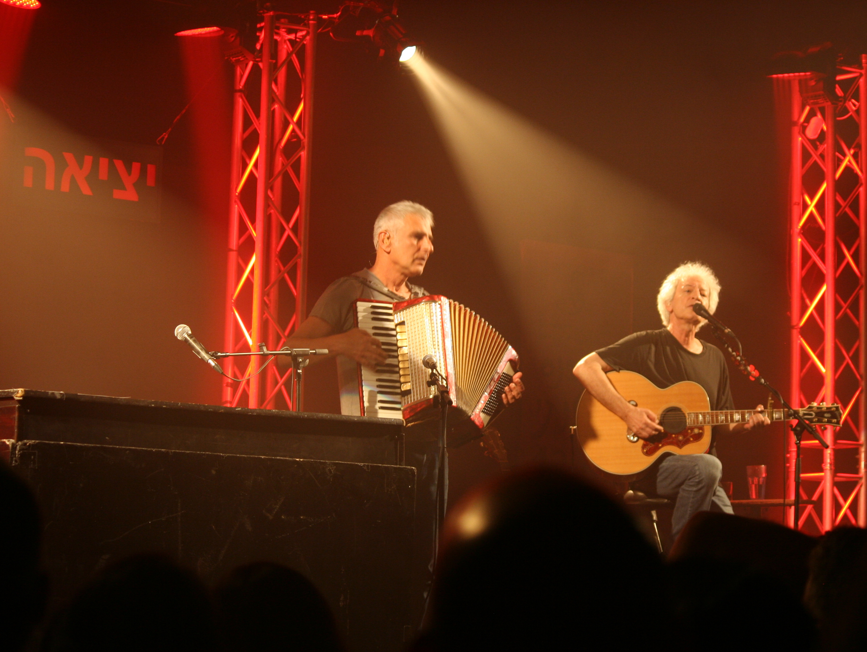 Shalom Hanoch and Moshe Levi